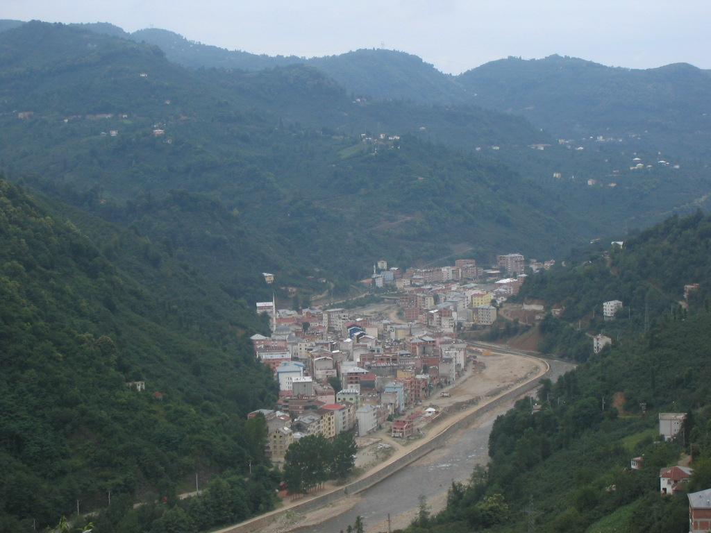 A view of Yaglidere, Turkey, from the mountains.